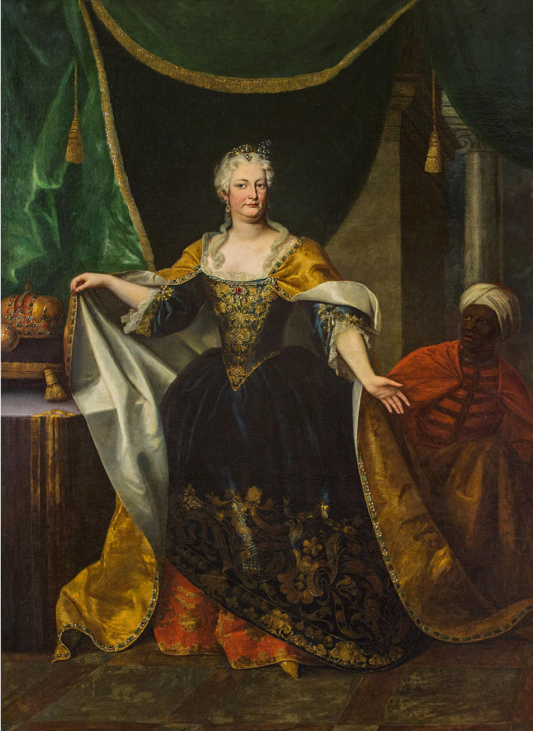 Portrait of Empress Elisabeth Christine (1691-1750)